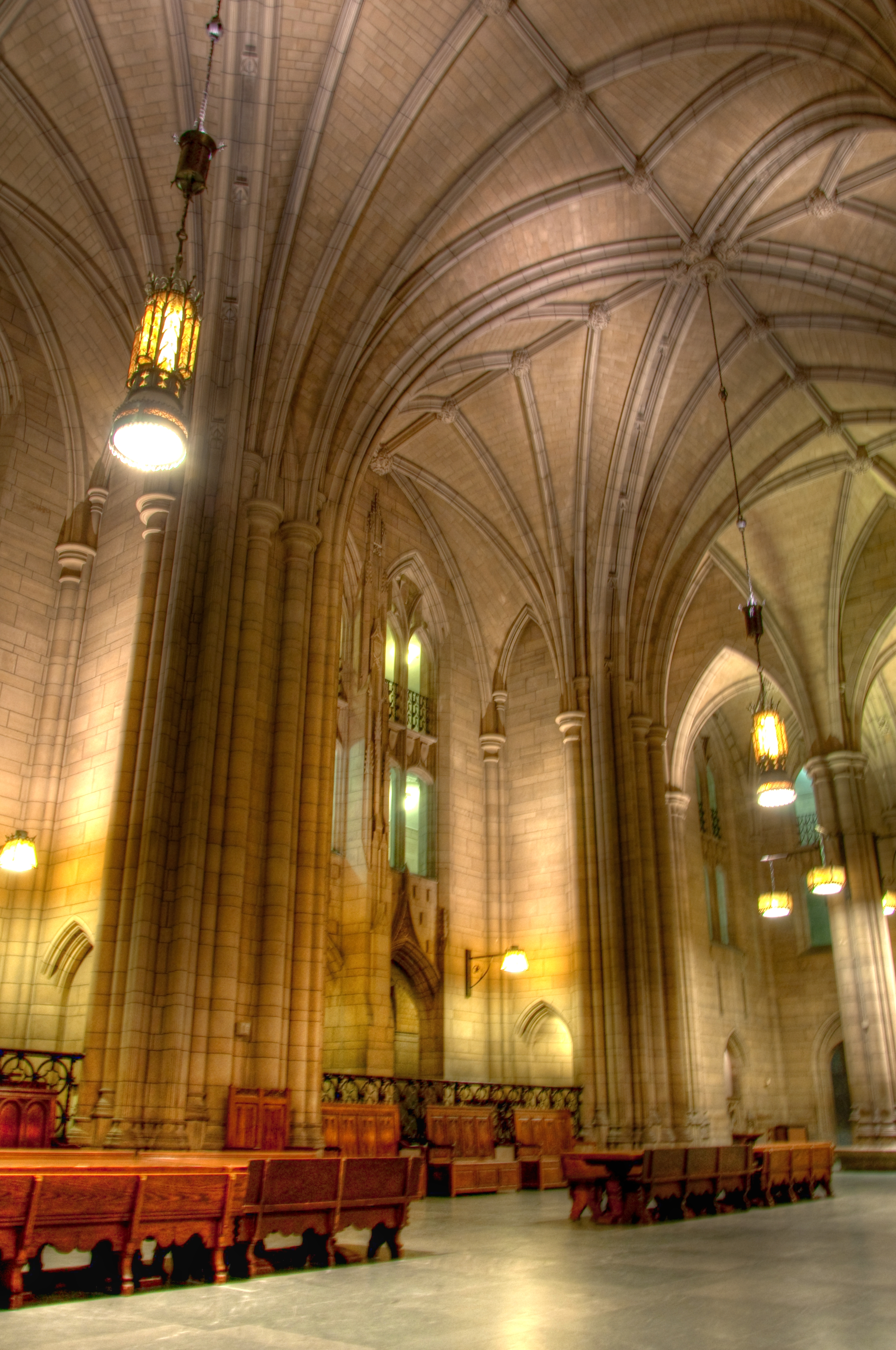 Hasty indoor shots. Will remember to bring tripod next time.